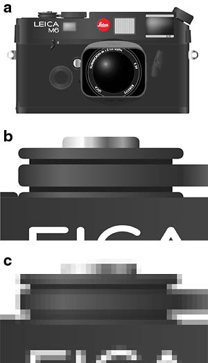 Example showing effect of vector graphics on ppm scale: (a) original vector-based illustration; (b) illustration magnified 8x as a vector image; (c) illustration magnified 8x as a raster image. Raster images scale poorly, while vector-based images can be scaled indefinitely without degradation. (Images were converted to JPEG for display on this page.)